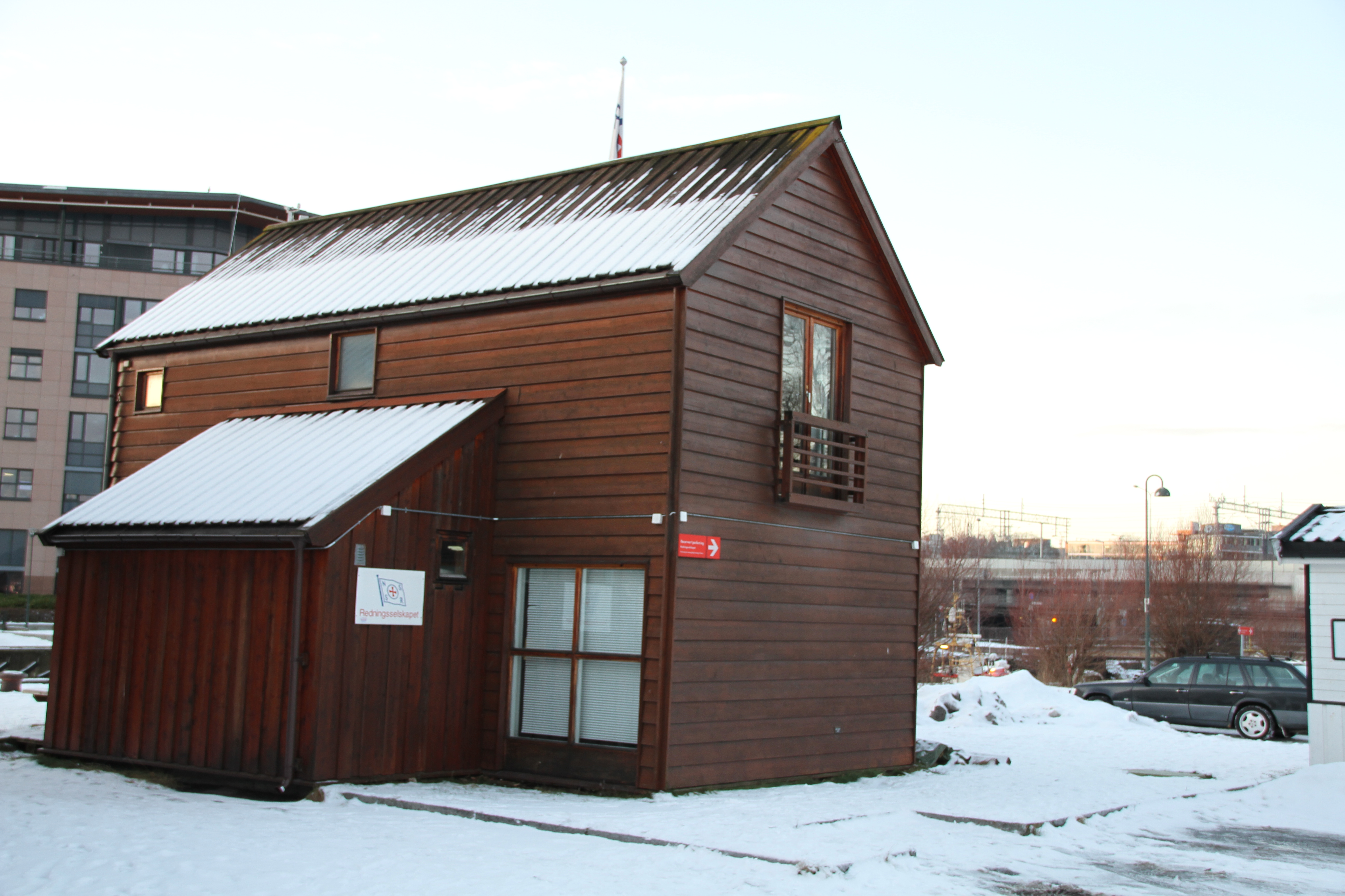 Norwegian SAR vessel (NSSR) station at Sollerud, by the Lysakerelva river (Oslo, Norway)..